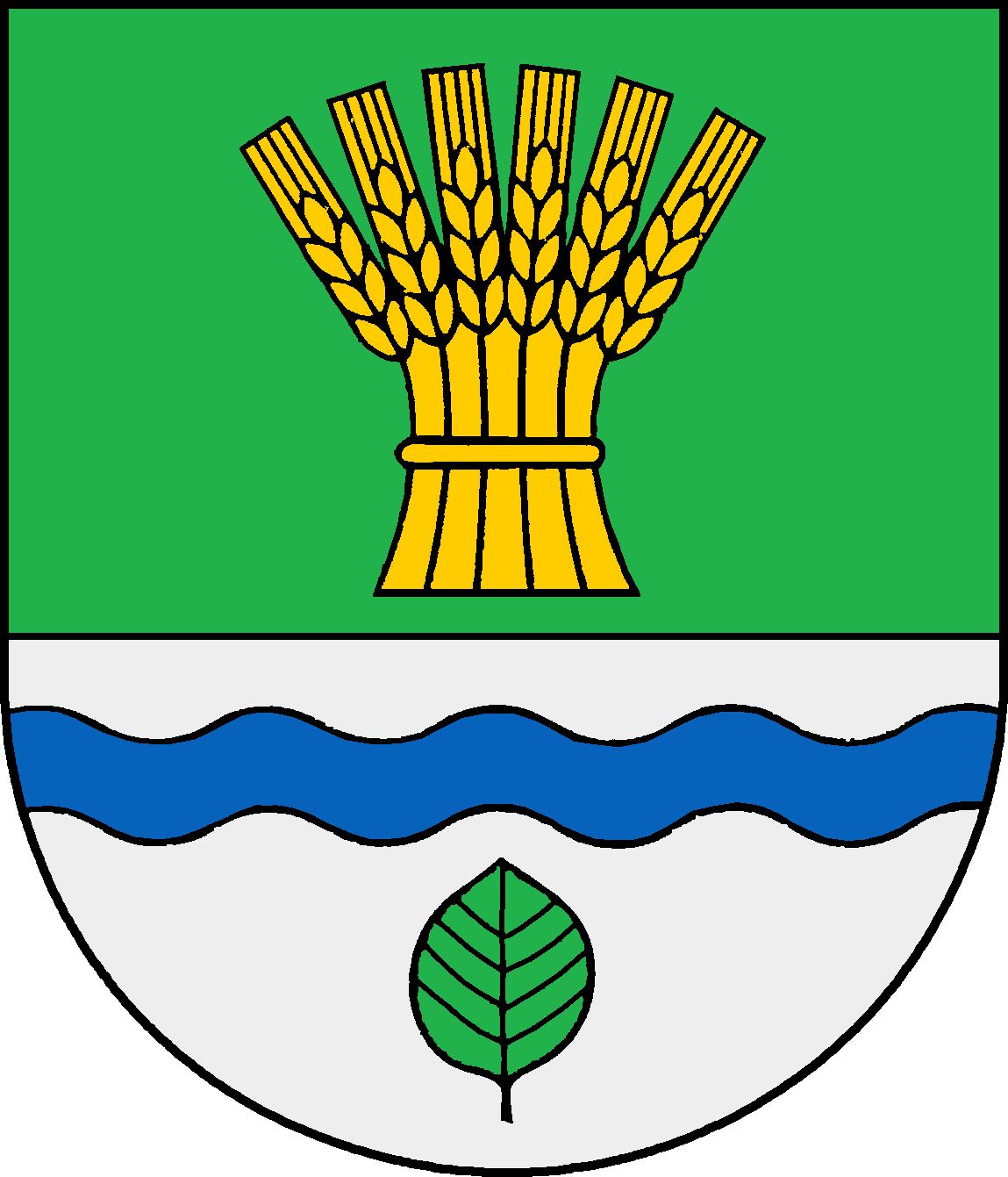 Coat of arms of the municipality Rohlstorf in Schleswig-Holstein, Germany.